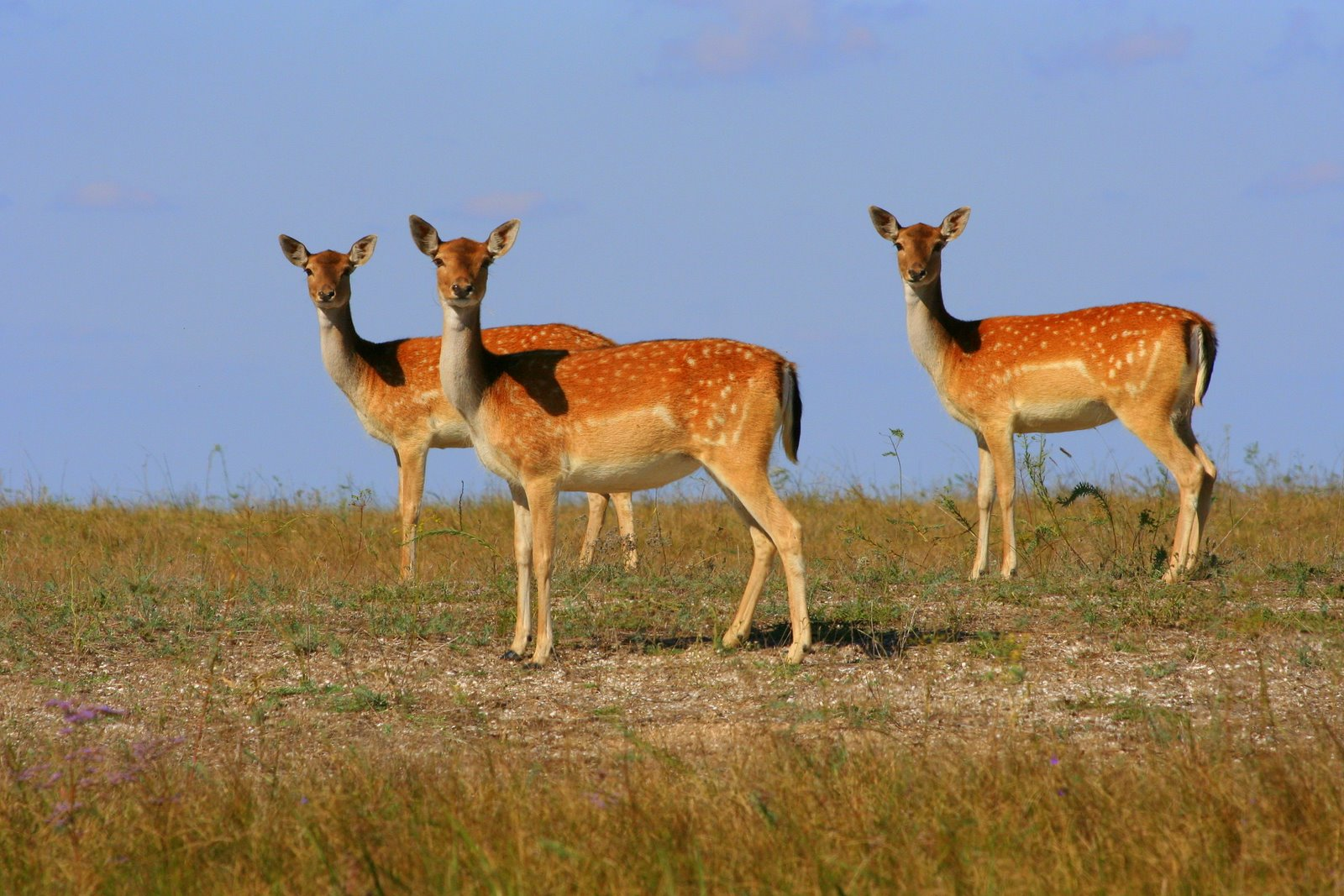 Female Fallow Deers on Byriuchyi Island in Azov Sea, Ukraine